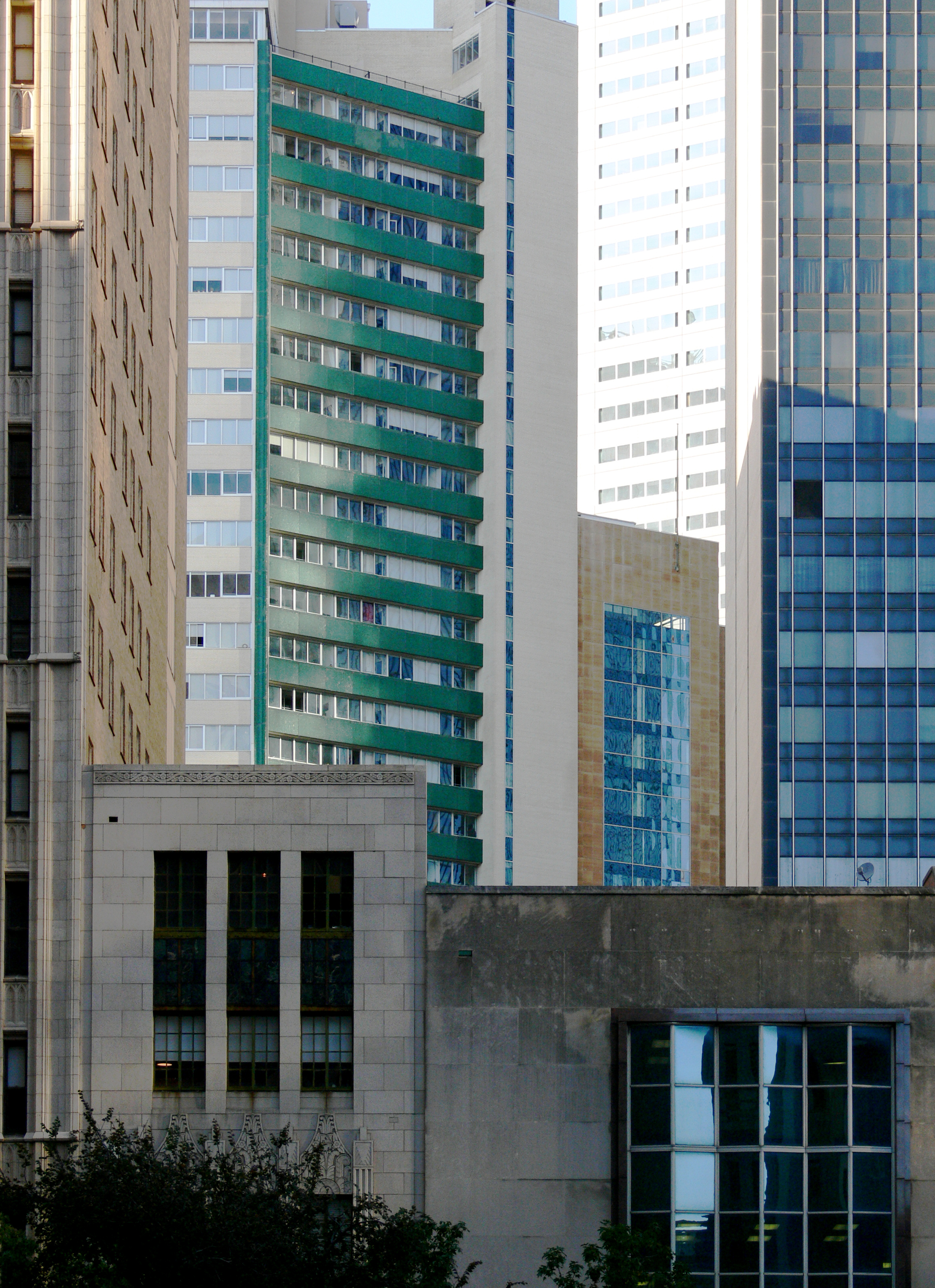 Dallas, Texas: Dallas Union Tower complex (now Mosaic Dallas), detail